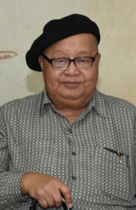 KARTILYA SESSION ON "DO CULTURE AND THE ARTS MATTER?" (DECEMBER 15, 2017)